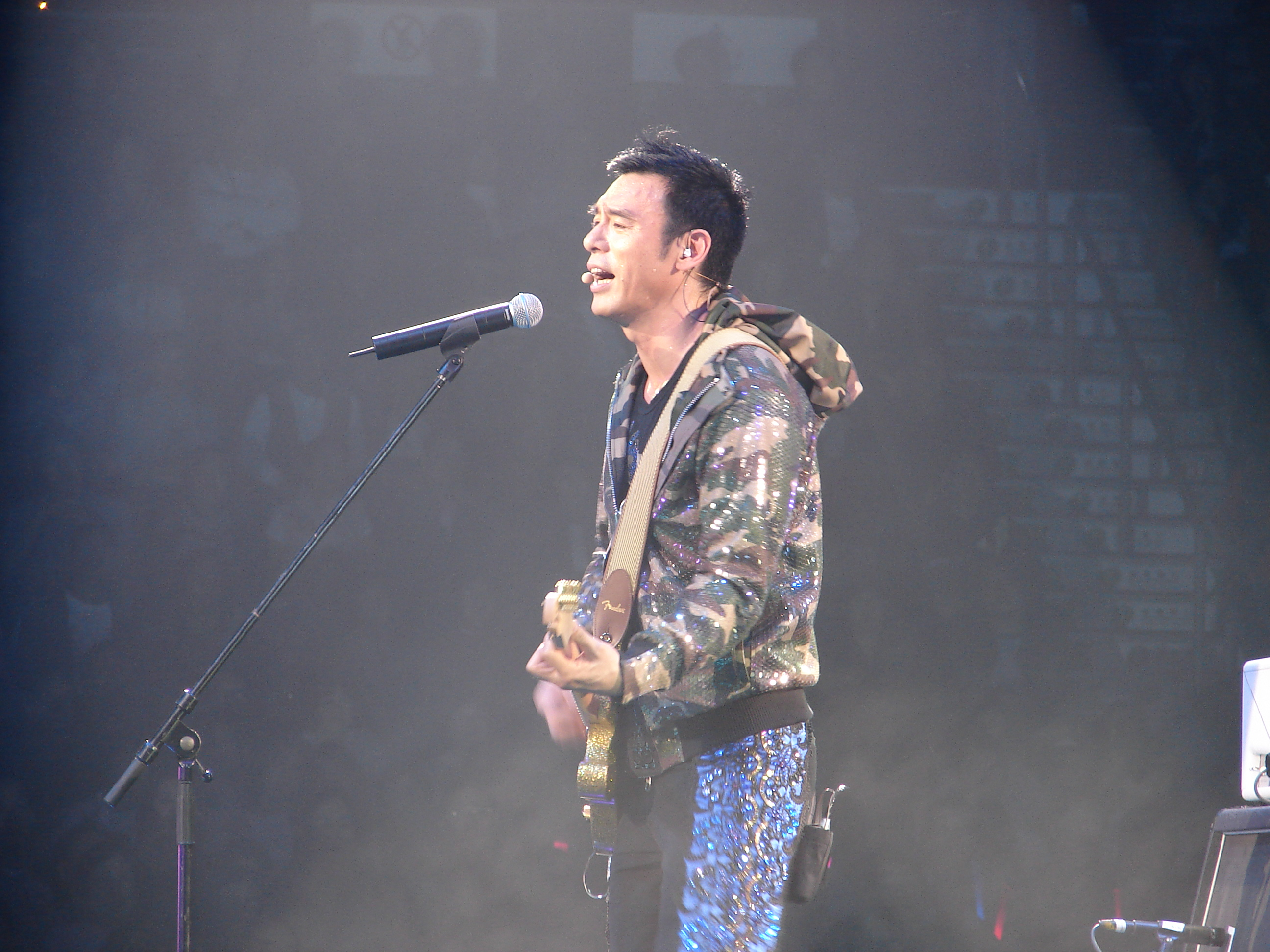 Kenny B@Wynners 33 Live In Concert 20 February 2007DSC08099